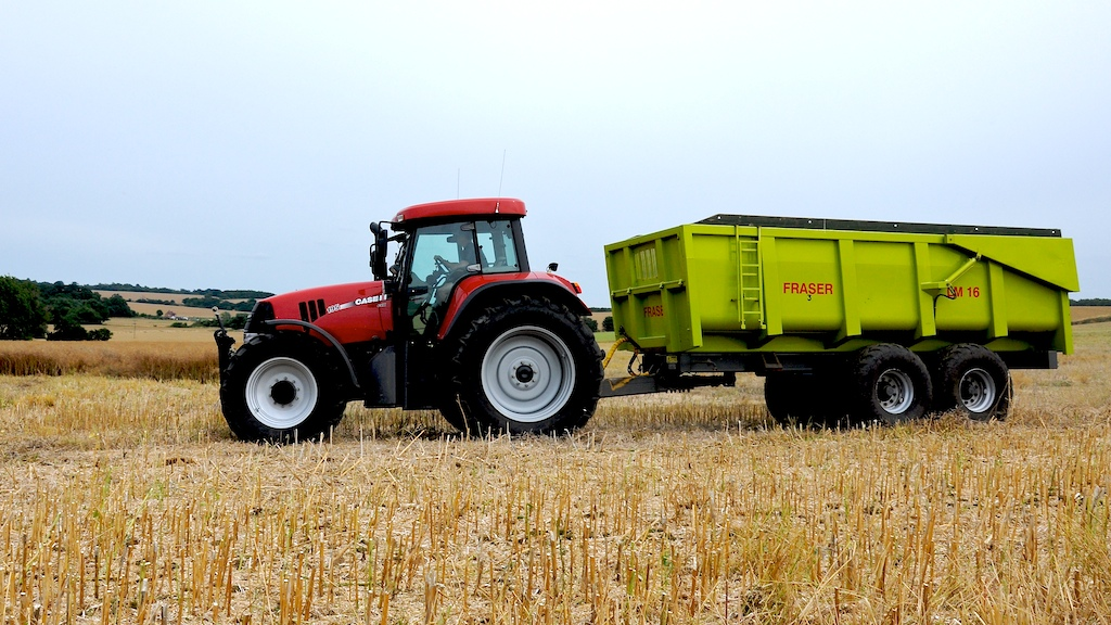 Case IH 195 tractor with a Fraser LM 16 trailer at harvest, Glemsford, Suffolk, UK.